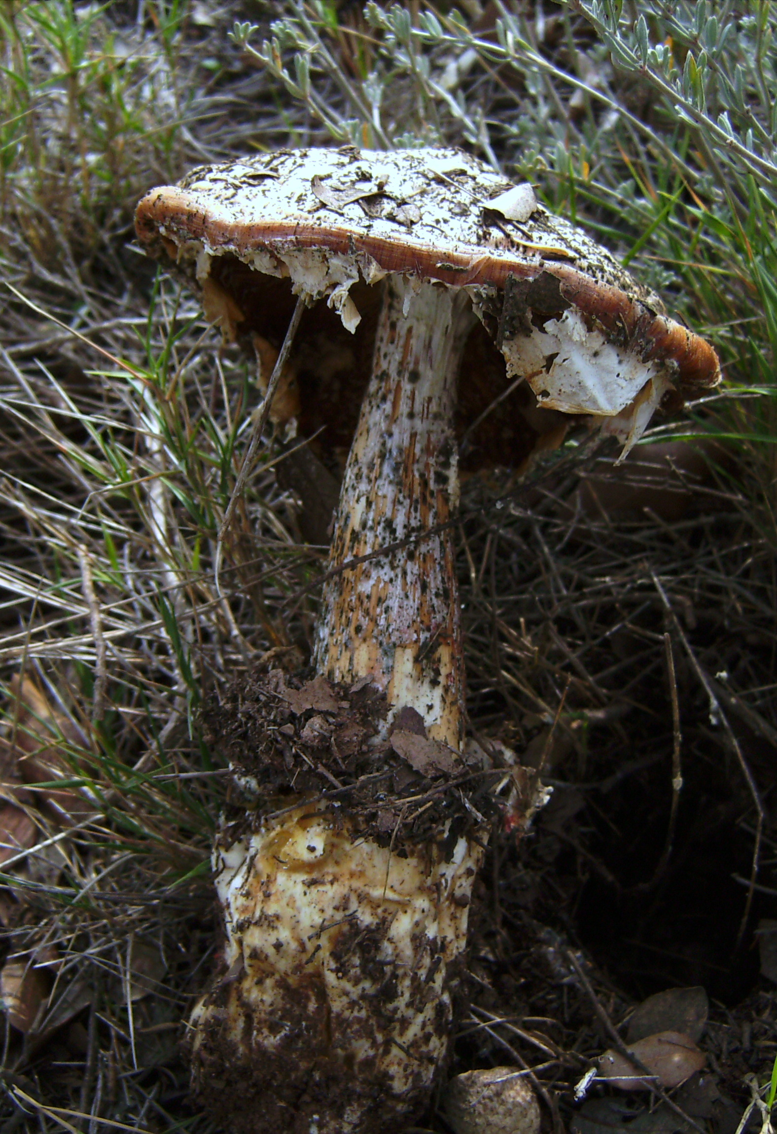 Amanita pantherina, an old specimen near "Quercus ilex" tree, Castelltallat, Catalonia